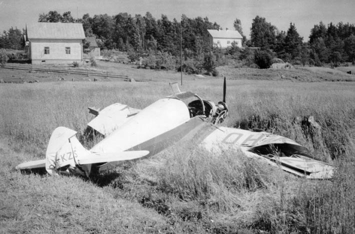 OH-KZS after a forced landing in Pyhäranta in July 1953. Photo from Eino Ritajärvi collection.